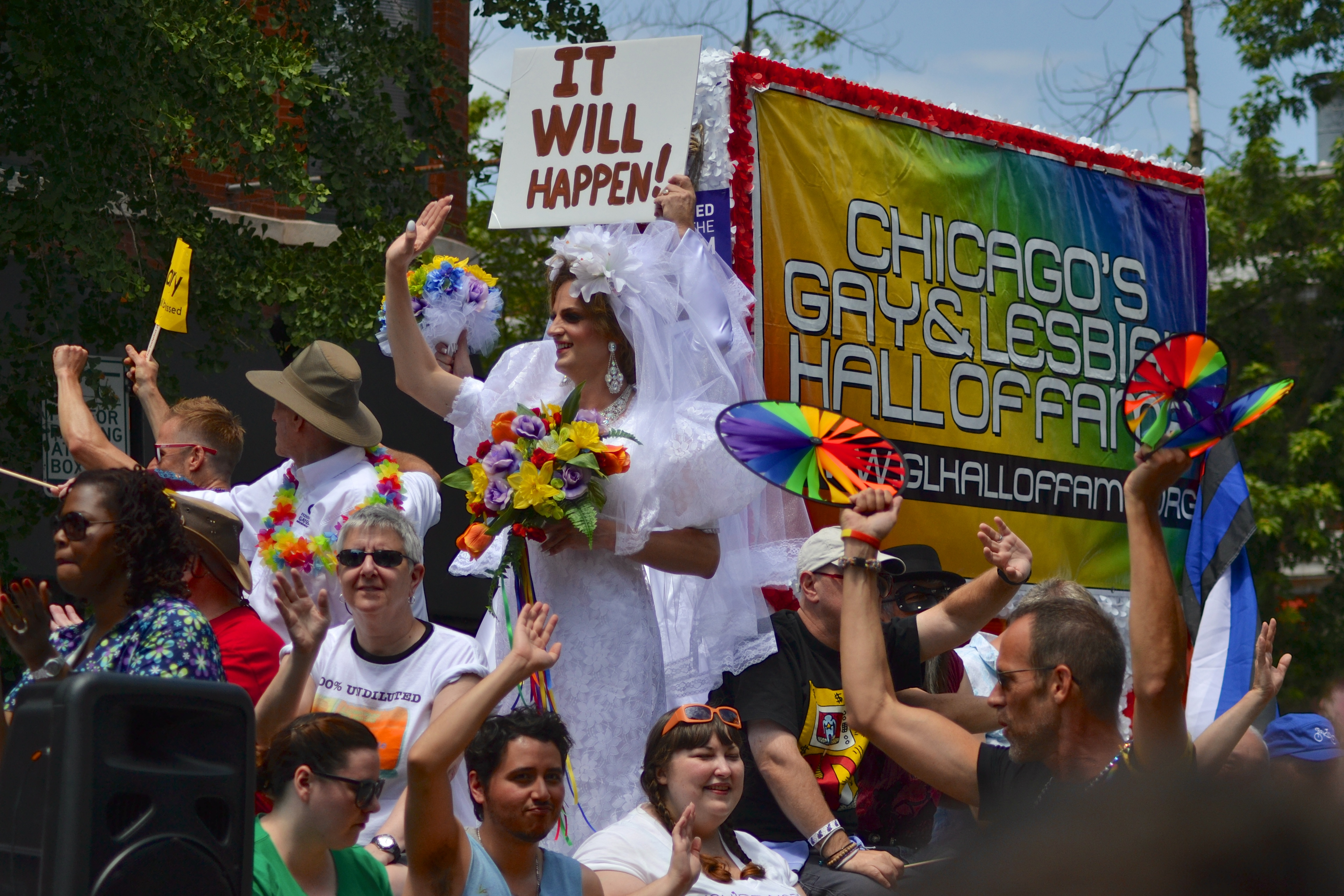 I didn't know there was a Gay and Lesbian Hall Of Fame.